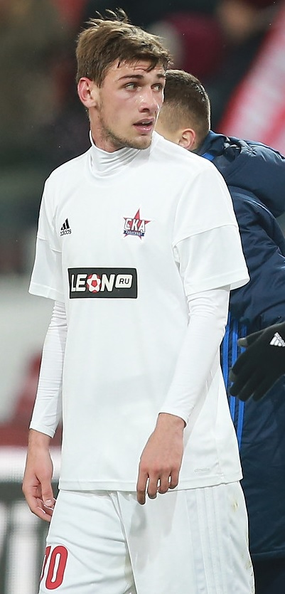 Georgi Makhatadze with FC SKA-Khabarovsk in a game against FC Spartak Moscow.